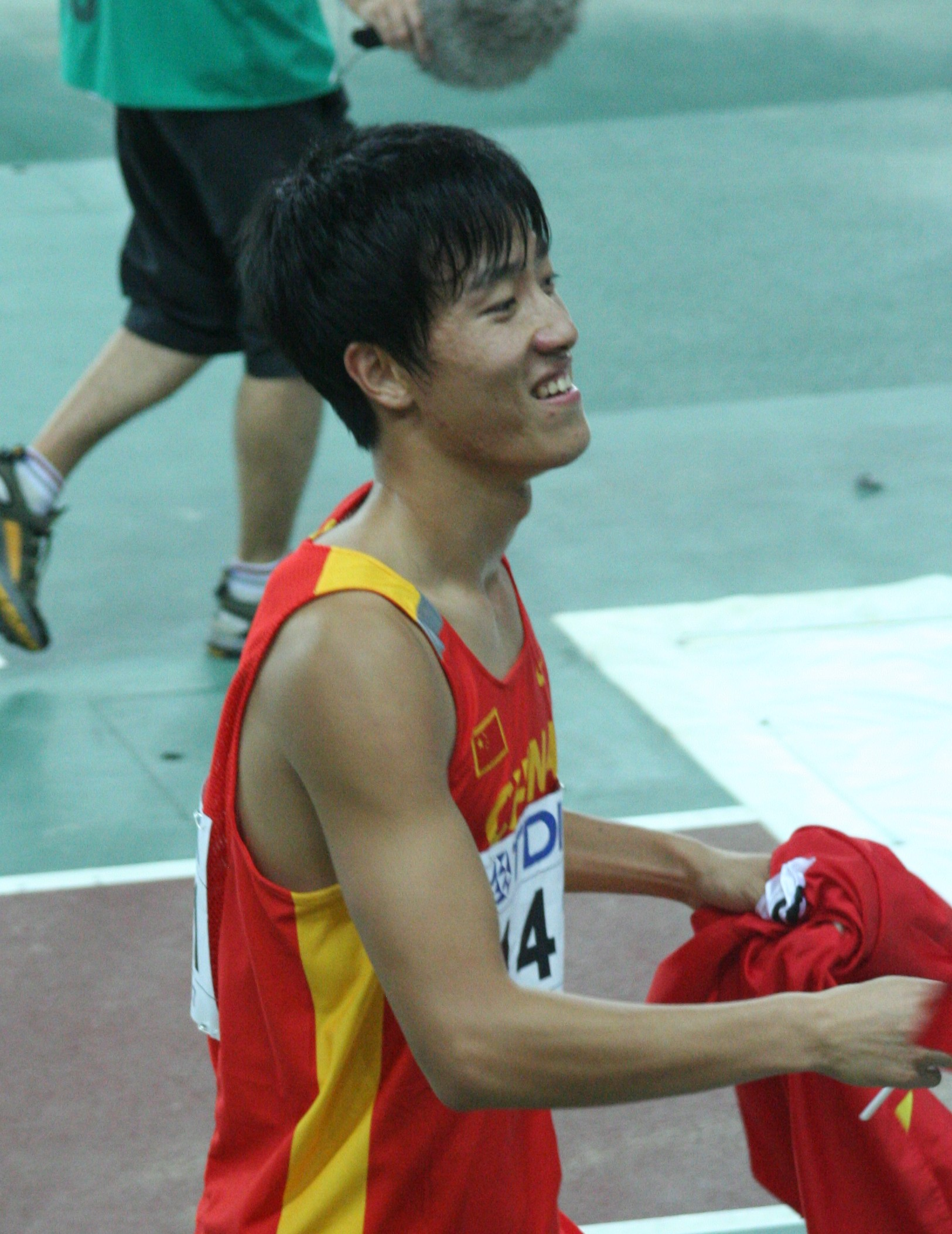 World Athletics Championships 2007 in Osaka - 110 metres hurdles runner Xiang Liu celebrating the first gold medal ever for China